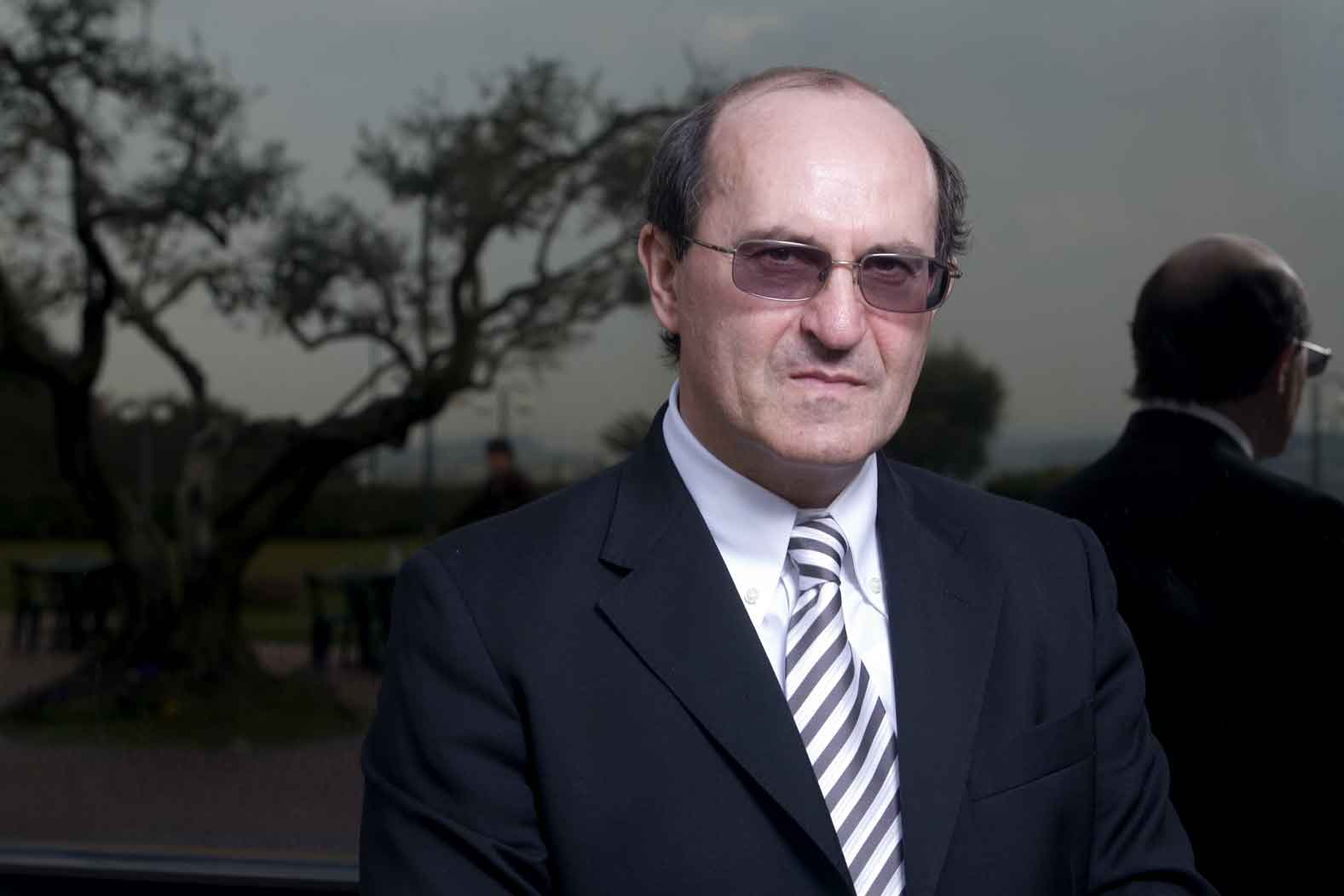 Giovanni Di Stefano